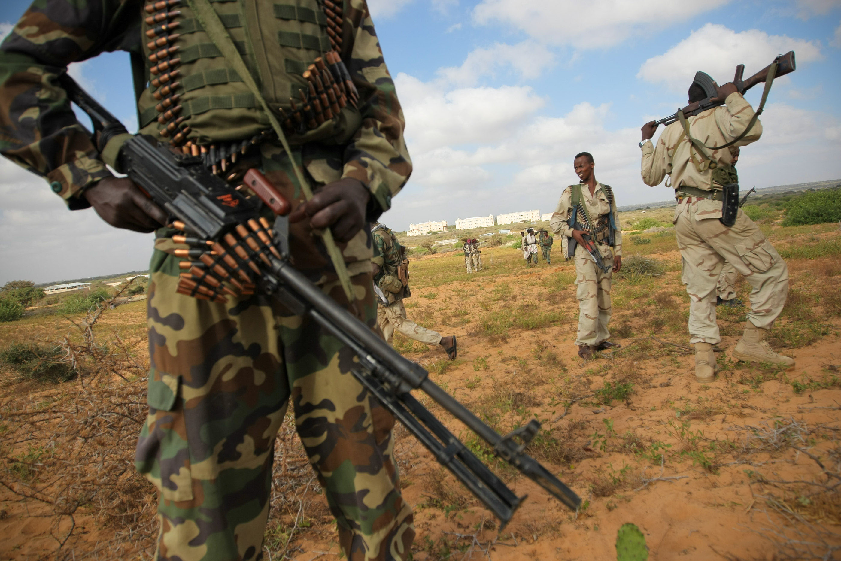 A Ugandan soldier serving with the African Union Mission in Somalia (AMISOM) and troops from the Somali National Army (SNA) stand 20 January, on open ground outside Mogadishu University following an advance to capture the position and surrounding areas in insurgent Al Shabaab territory. The operation saw SNA forces supported by AMSIOM push 3.5km further north from their previous forward defensive line along the industrial road to take the strategically important area of and around Mogadishu Univeristy, the very furthest northern point of the Somali capital and where the Al Qaeda-linked Al Shabaab planned and carried out attacks against the African Union mission, the Transitional Federal Government (TFG) and targets within the Somali capital.. AU-UN IST PHOTO / STUART PRICE.